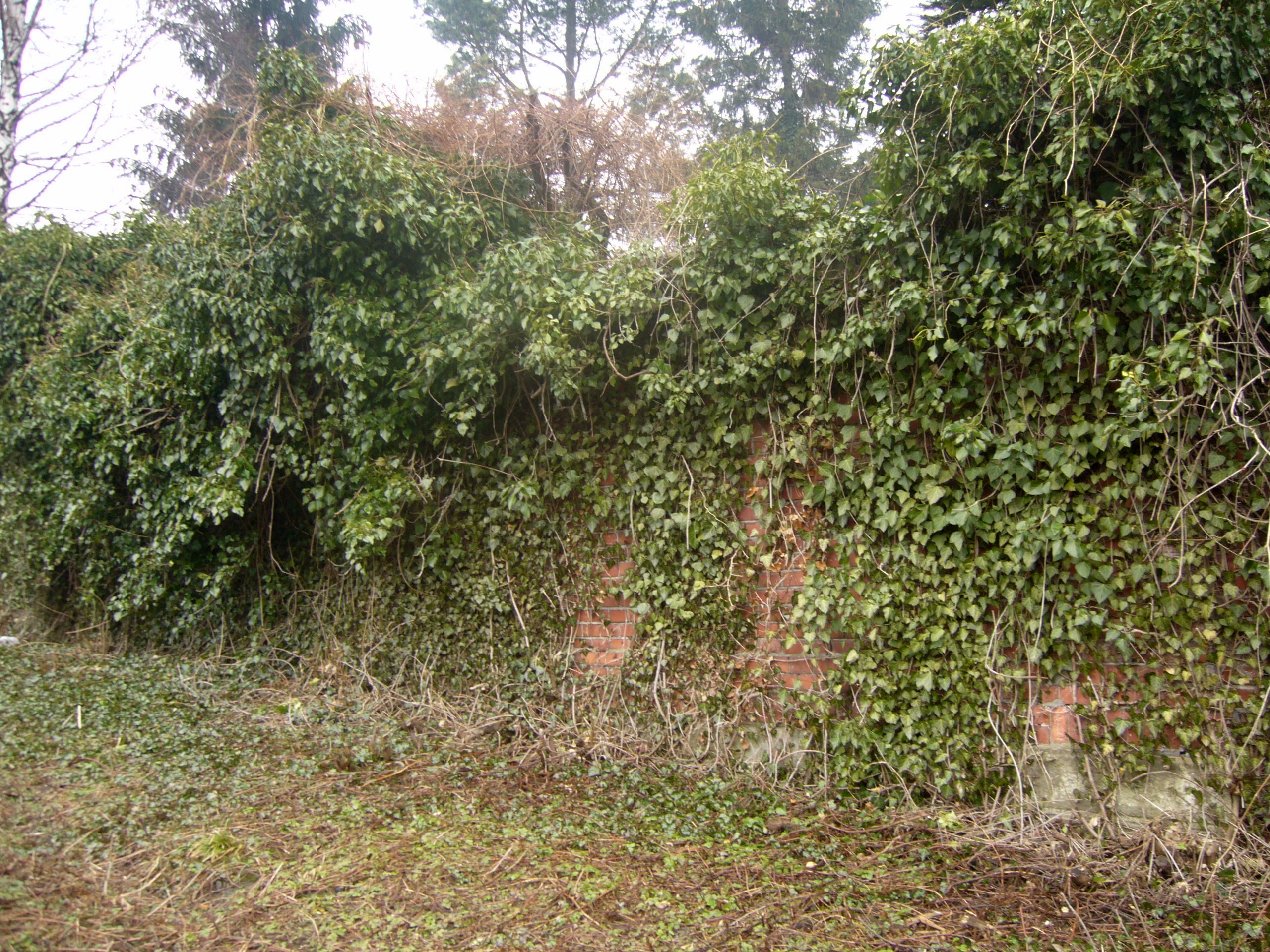 Wall of jewish cemetery in Bielsko-Biała.